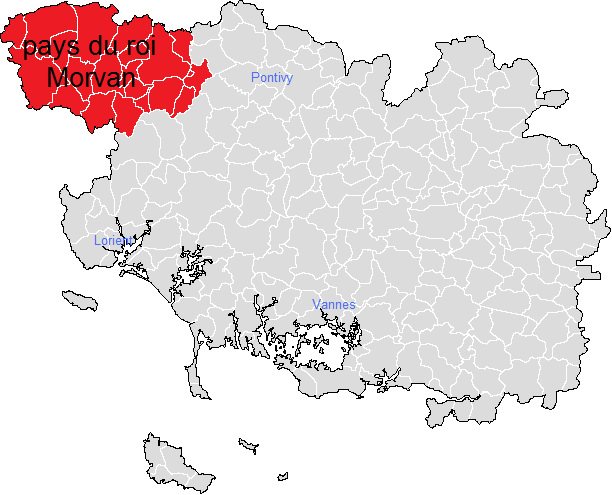 placement pays du roi Morvan